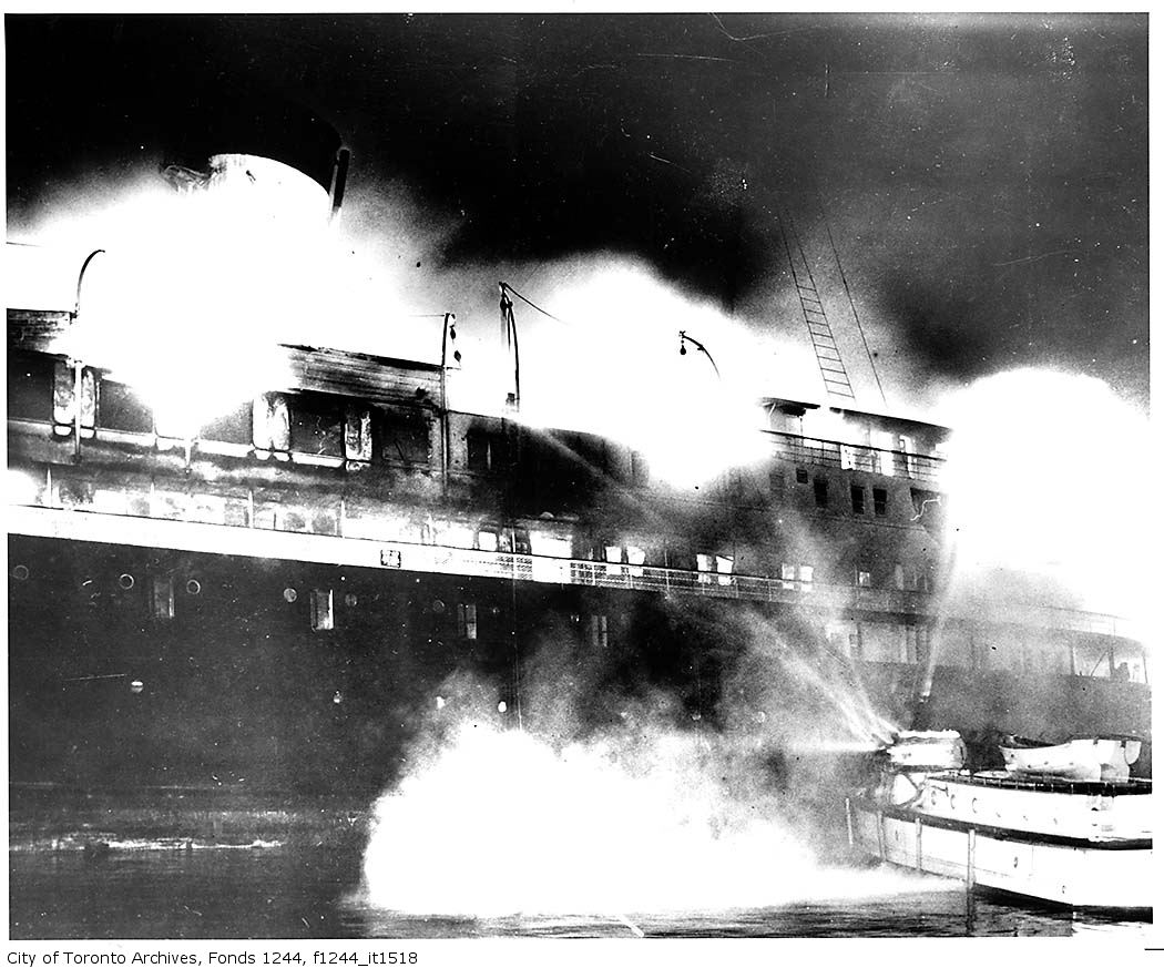 Photographer: Norman James September 17, 1949 City of Toronto Archives This image is available from the City of Toronto Archives, listed under the archival citation Fonds 1244, Item 1518. This tag does not indicate the copyright status of the attached work. A normal copyright tag is still required. See Commons:Licensing for more information.